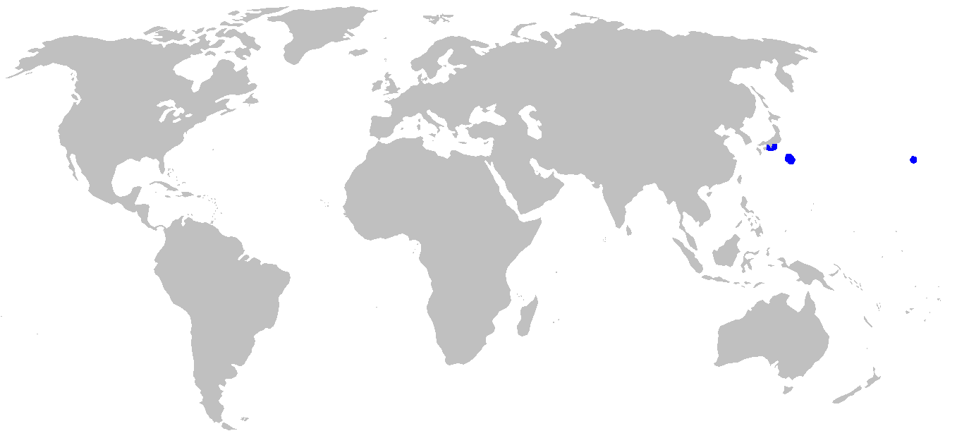 Distribution map for Trigonognathus kabeyai, based on Yano, K.; Mochizuki, K.; Tsukada, O.; Suzuki, K. (2003). "Further description and notes of natural history of the viper dogfish, Trigonognathus kabeyai from the Kumano-nada Sea and the Ogasawara Islands, Japan (Chondrichthyes: Etmopteridae)". Ichthyological Research 50 (3): 251–258.